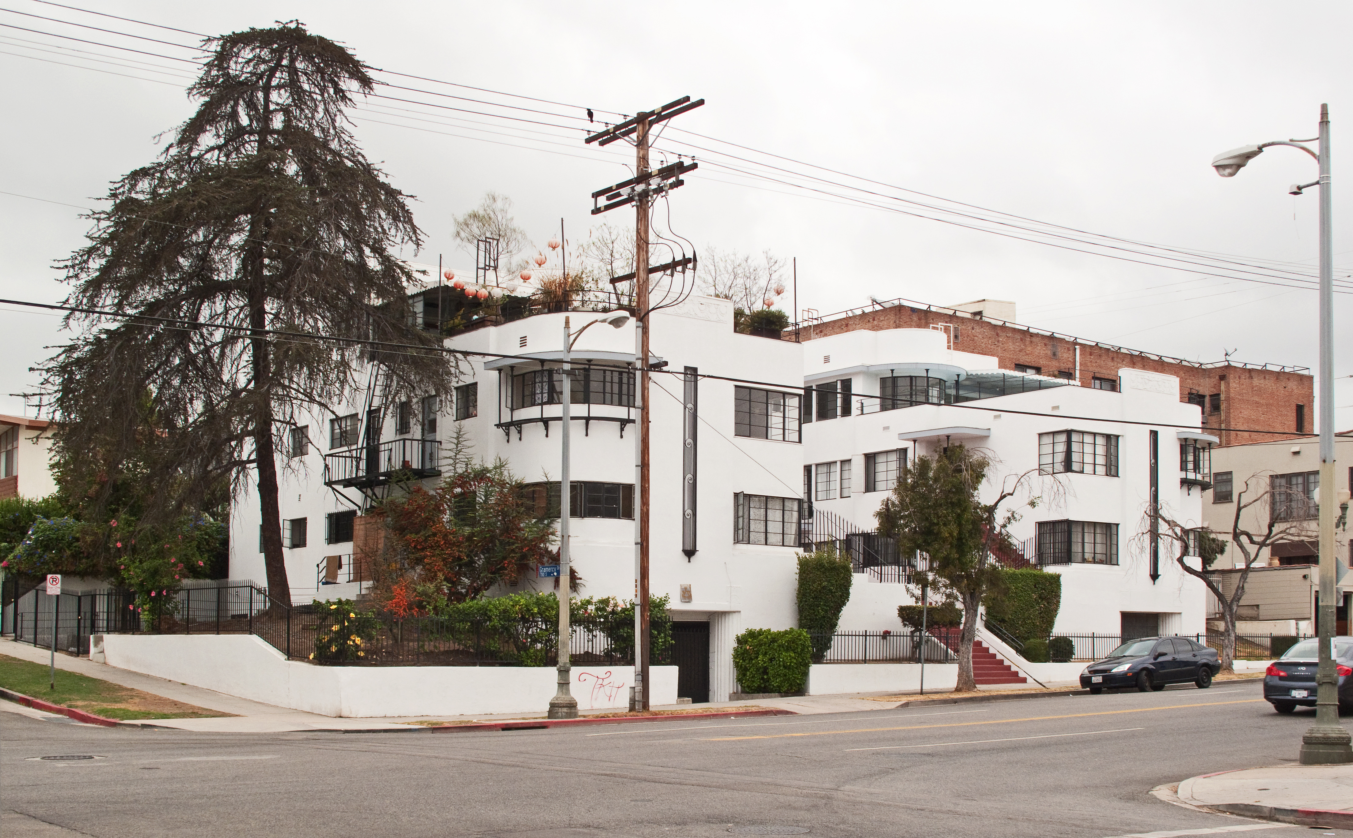 Richardson Apartments, 3919 W. 8th St./ 718 S. Gramercy Dr., in the Mid-Wilshire district of Los Angeles, California. Los Angeles Historic-Cultural Monument #847.